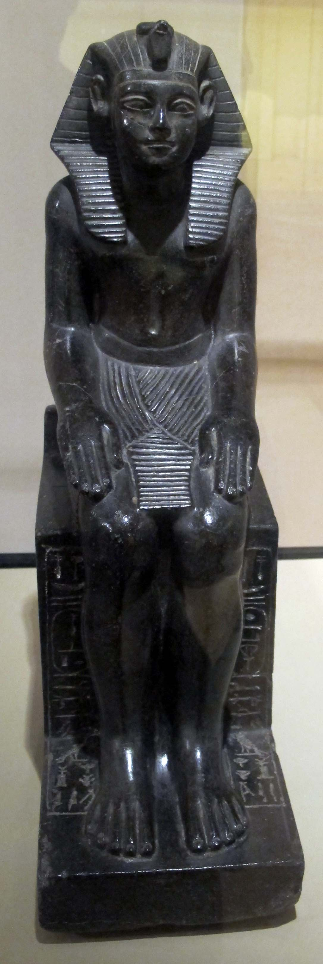 Egyptian antiquities in the Archeological Museum of Bologna